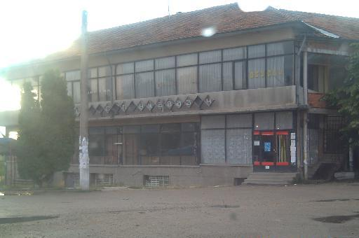 The shop, restaurant and cafeteria of village Slivovik, Bulgaria